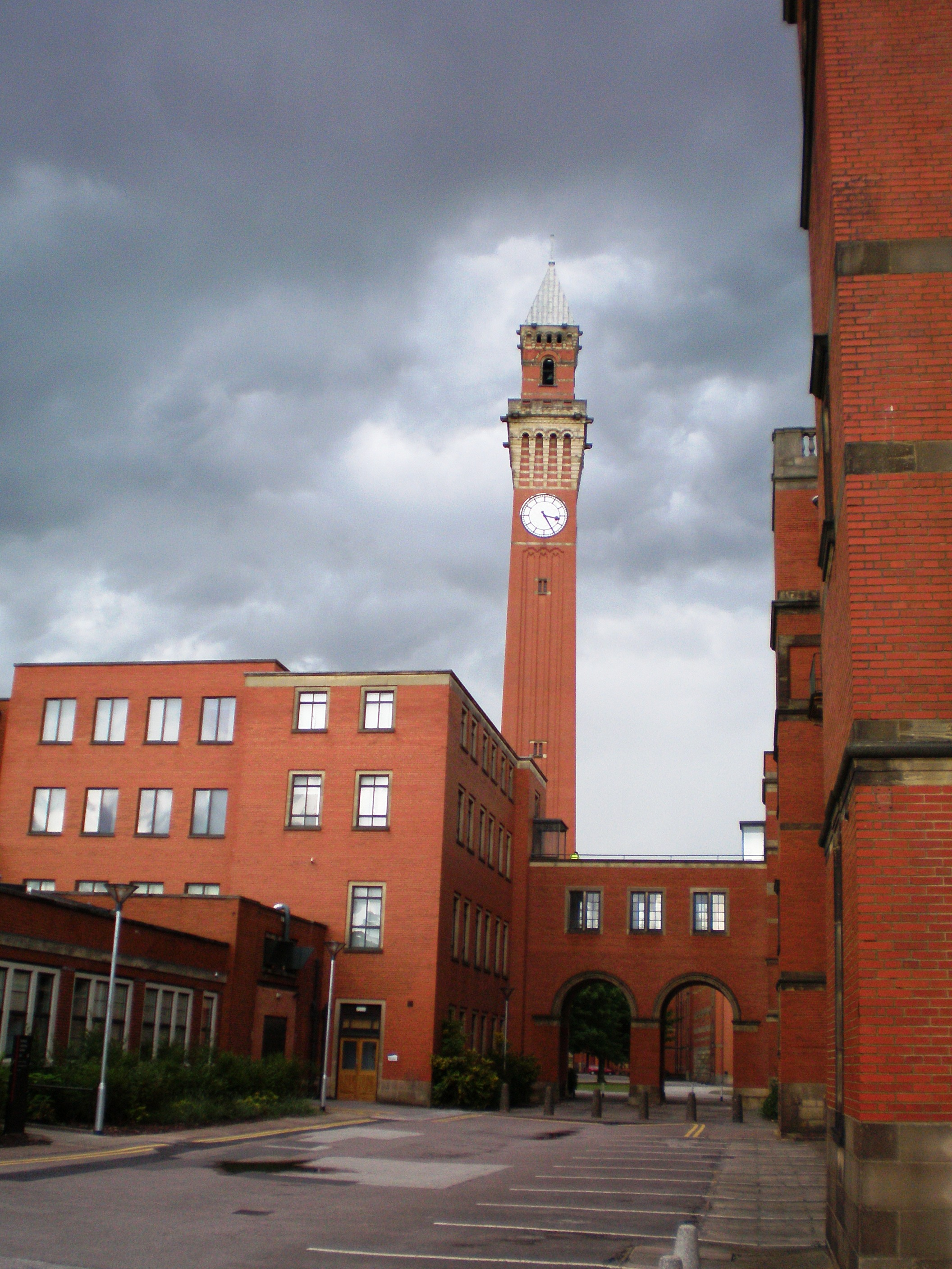 Joseph Chamberlain Memorial Clock Tower, University of Birmingham, Edgbaston.